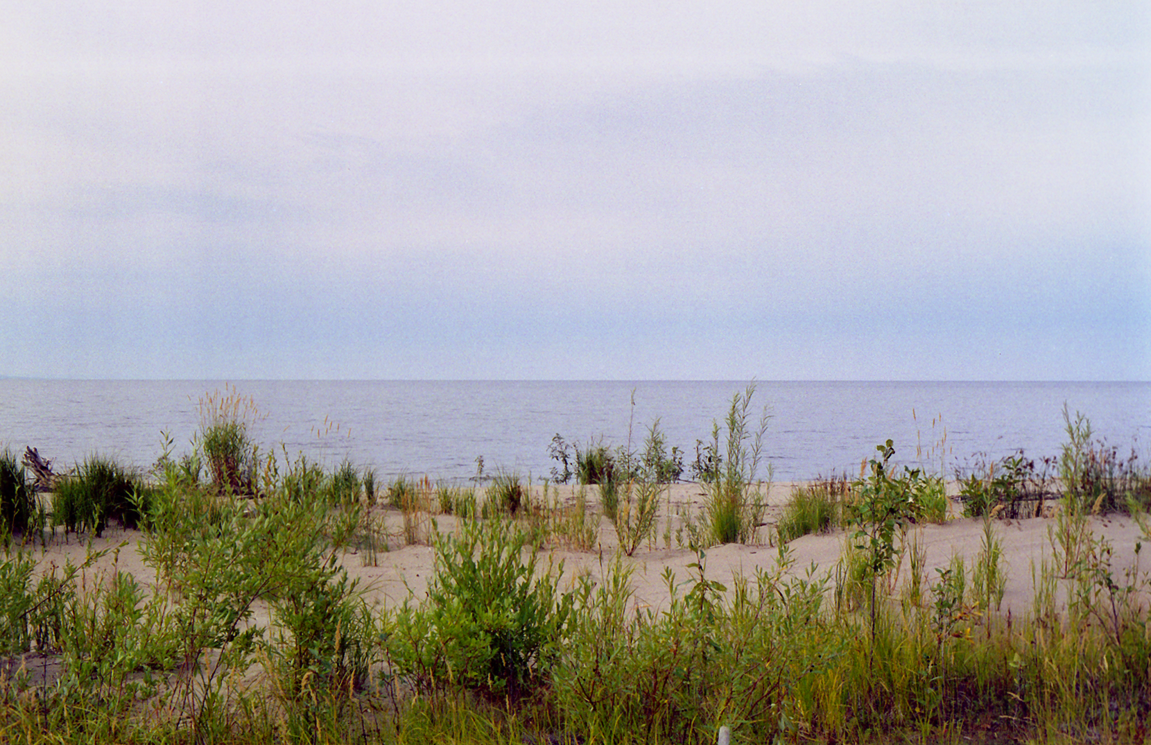 View of Slave Lake, Alberta, Canada